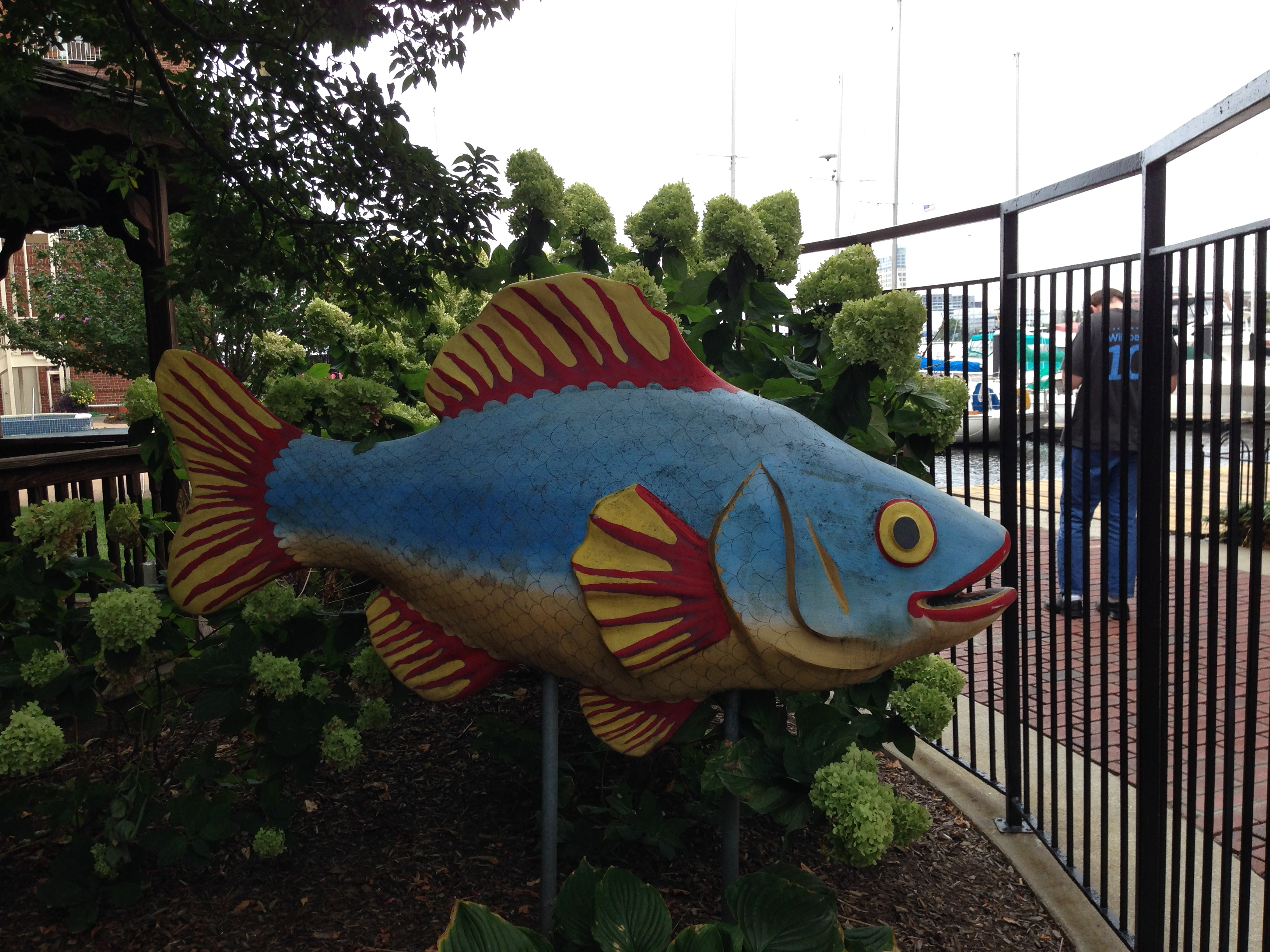 Colorful fish statue in Fell's Point, Baltimore.